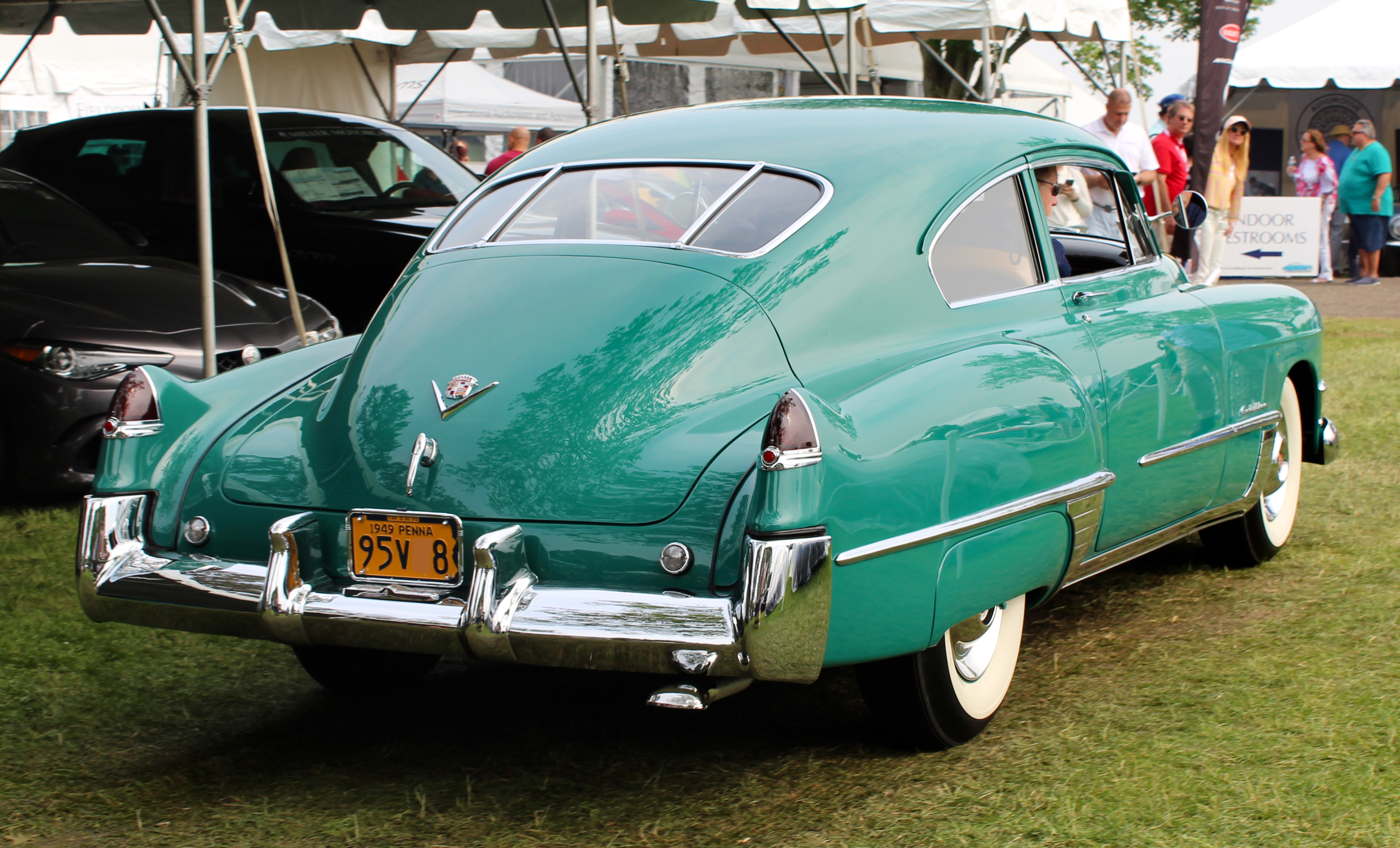 A 1949 Cadillac Series 62 photographed during the 2019 Greenwich Concours d'Elégance, Connecticut, USA